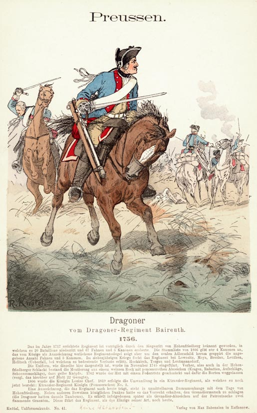 Preußen. Dragoner-Regiment Baireuth. 1756